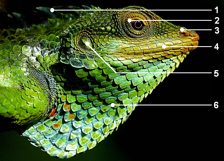 This Large Scaled Forest Lizard [Calotesis grandisqamis]photographed from Valparai,Near Pollachi, Tamilnadu, India.